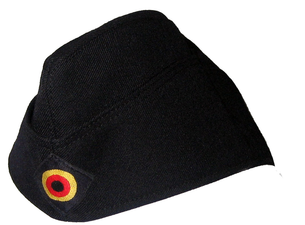 The dark-blue garrison cap, worn by sailors of the German Navy.